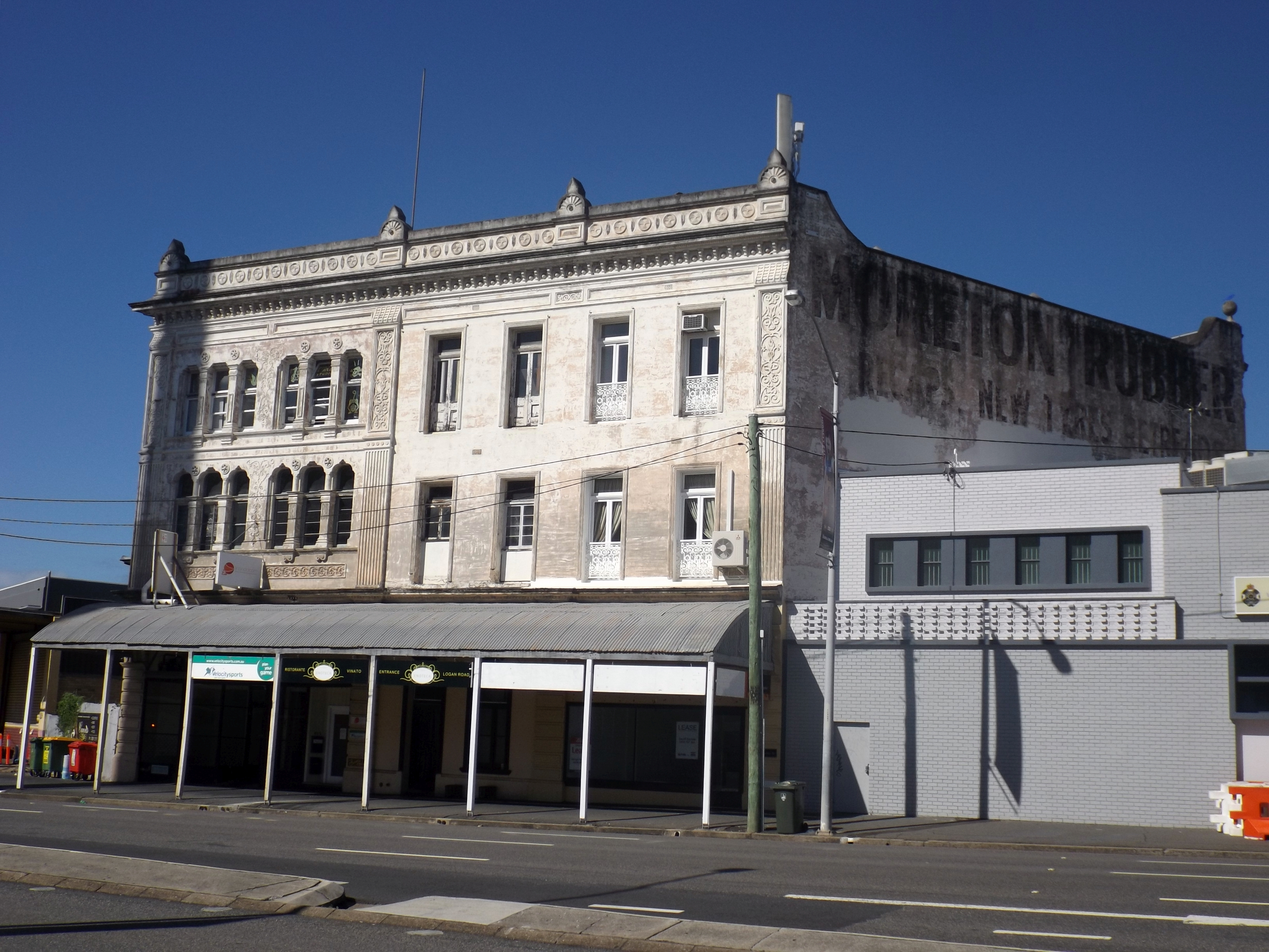 Photo of Taylor-Heaslop Building from Stanley Street East at Woolloongabba, Brisbane, Queensland, Australia.